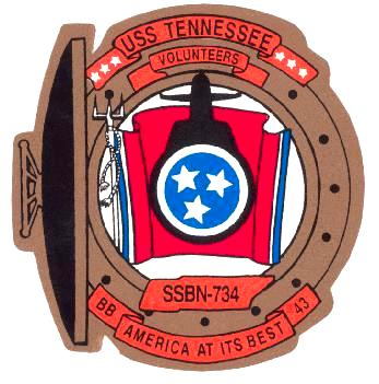 Insignia of USS Tennessee SSBN-734